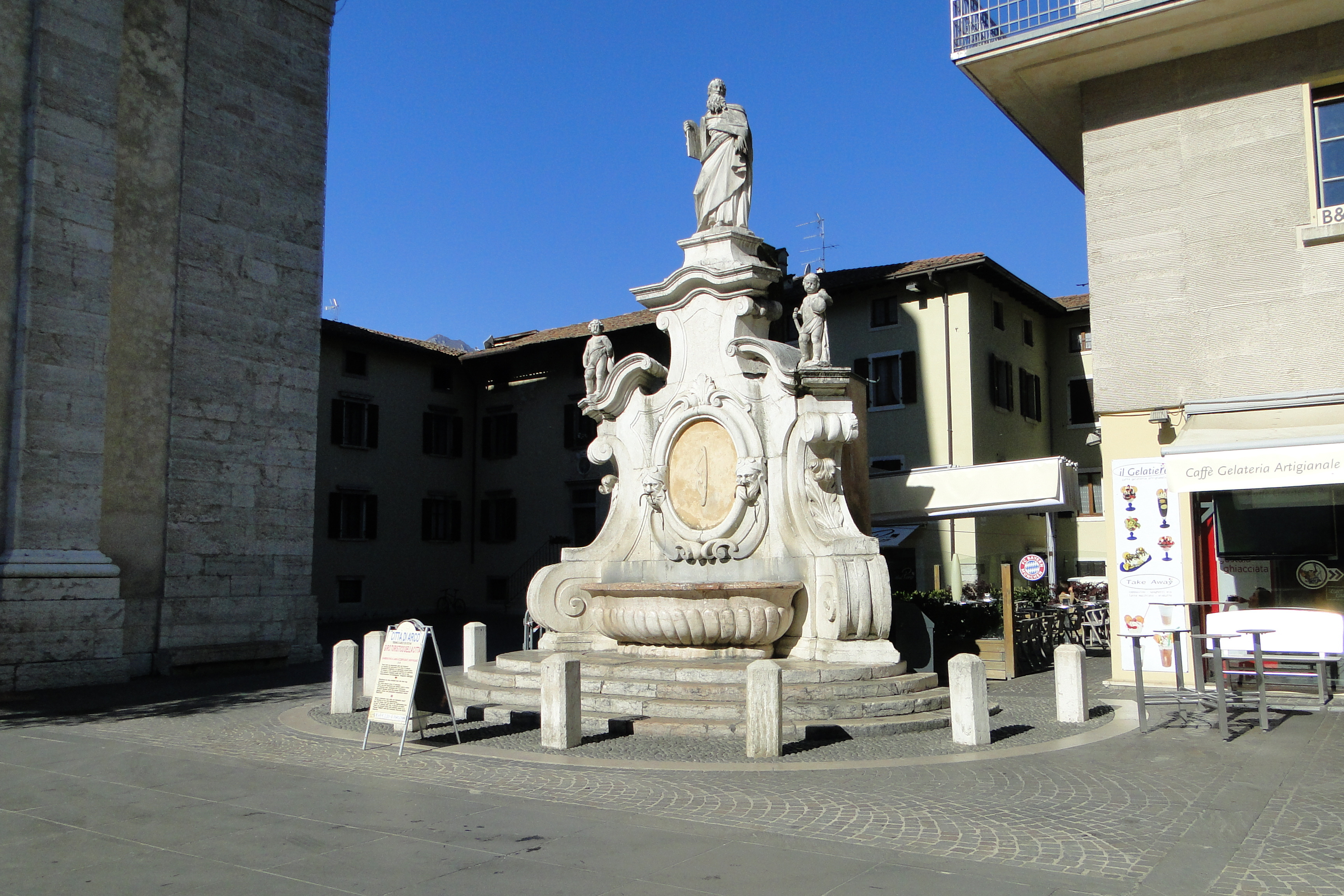 Moses Fountain in III November Square at Arco (Trento, Italy)